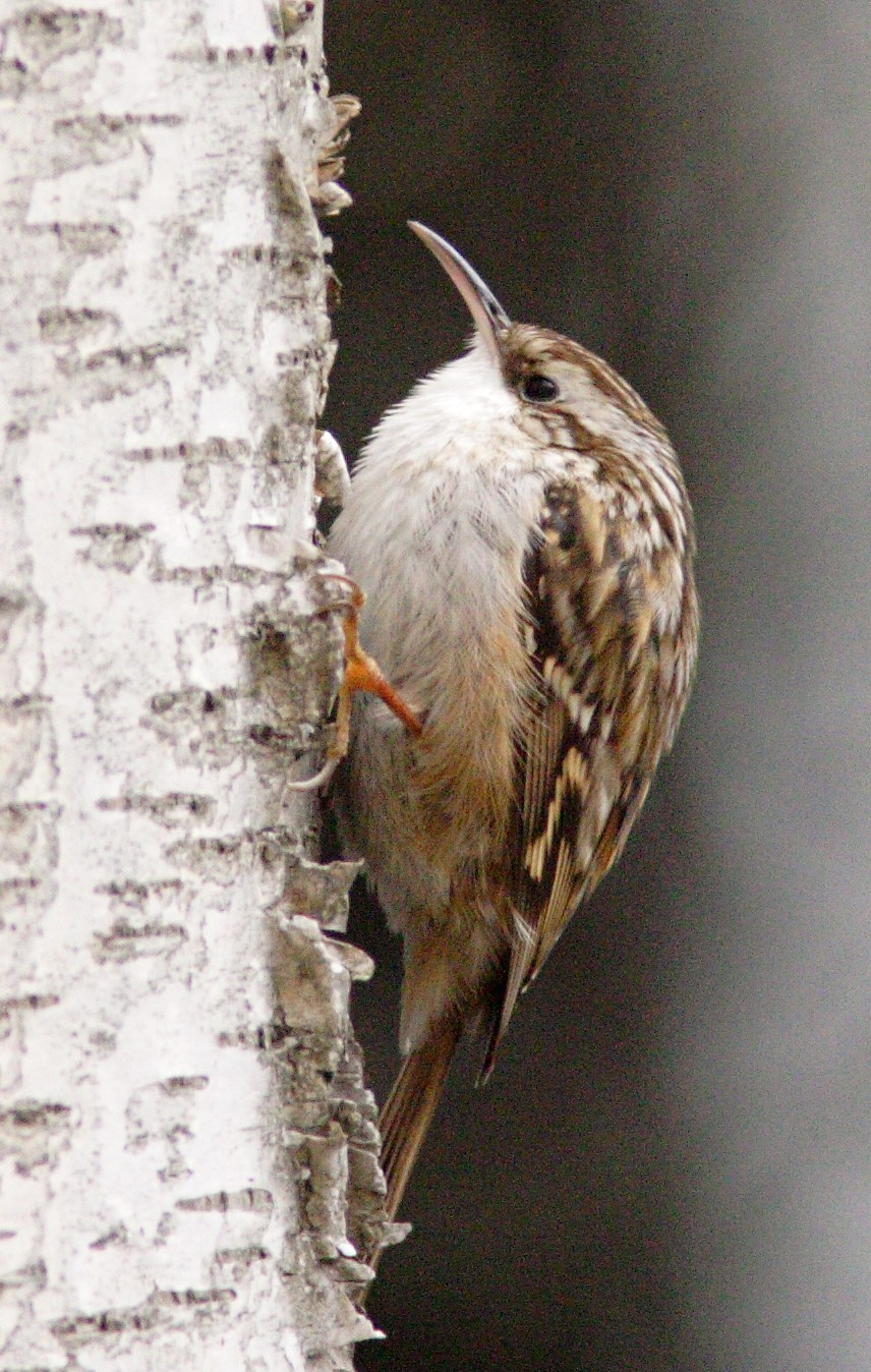 A short-toed treecreeper from Germany.